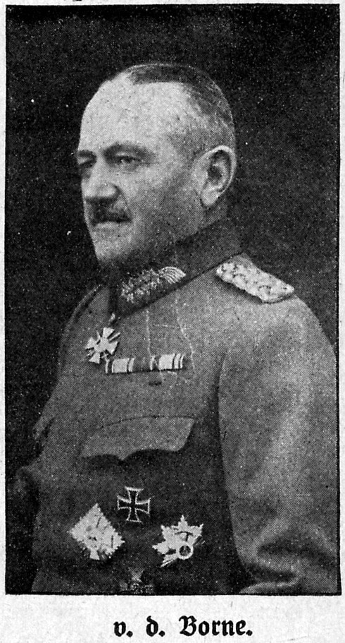 General Kurt von dem Borne (WW1)